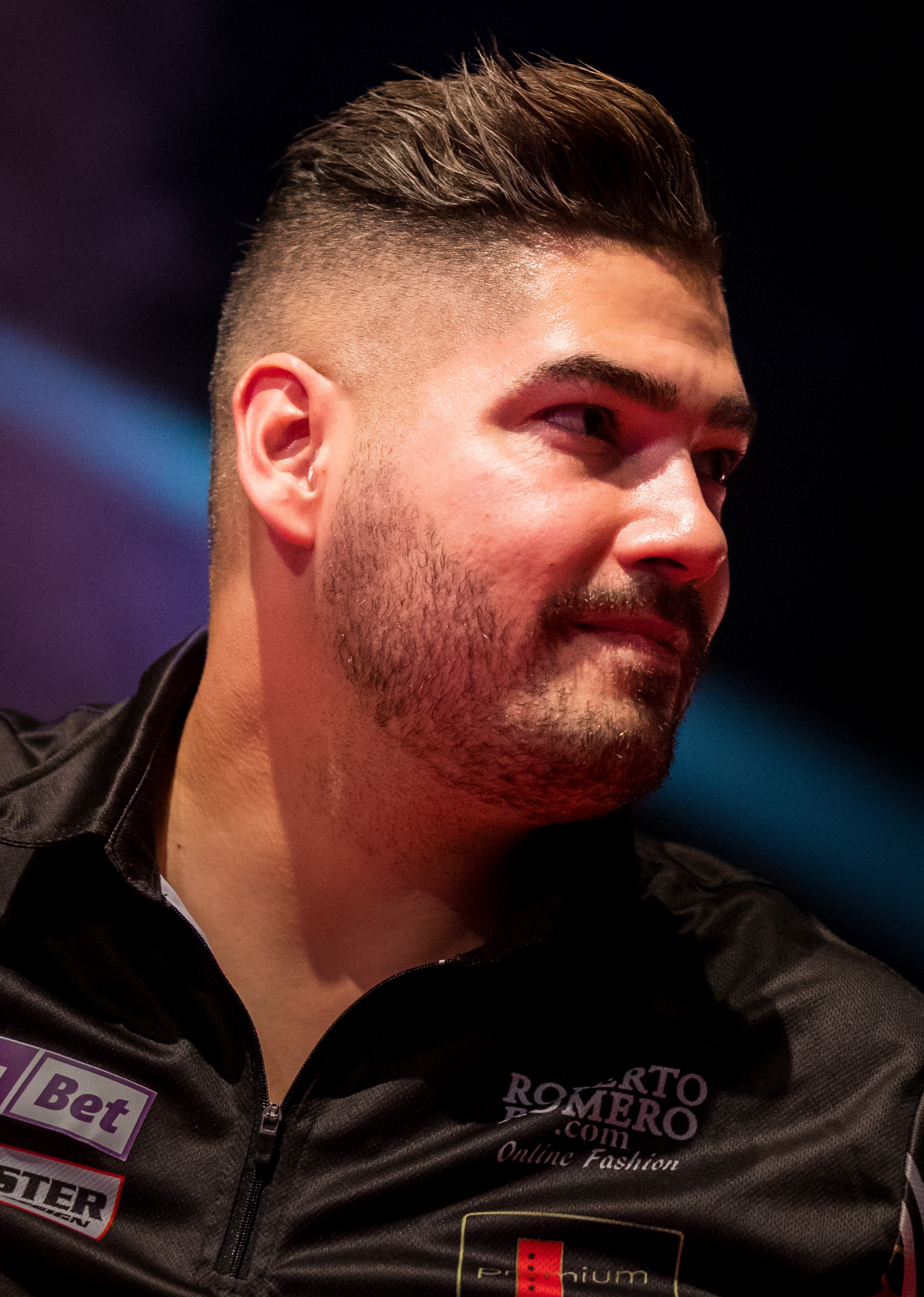 Cropped version